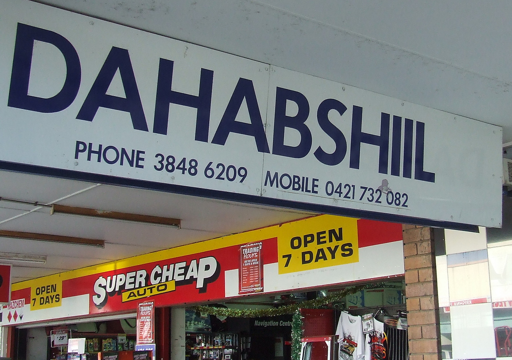 A franchise outlet of the Somali-owned money transfer company, Dahabshiil, in Moorooka, Brisbane, Australia.